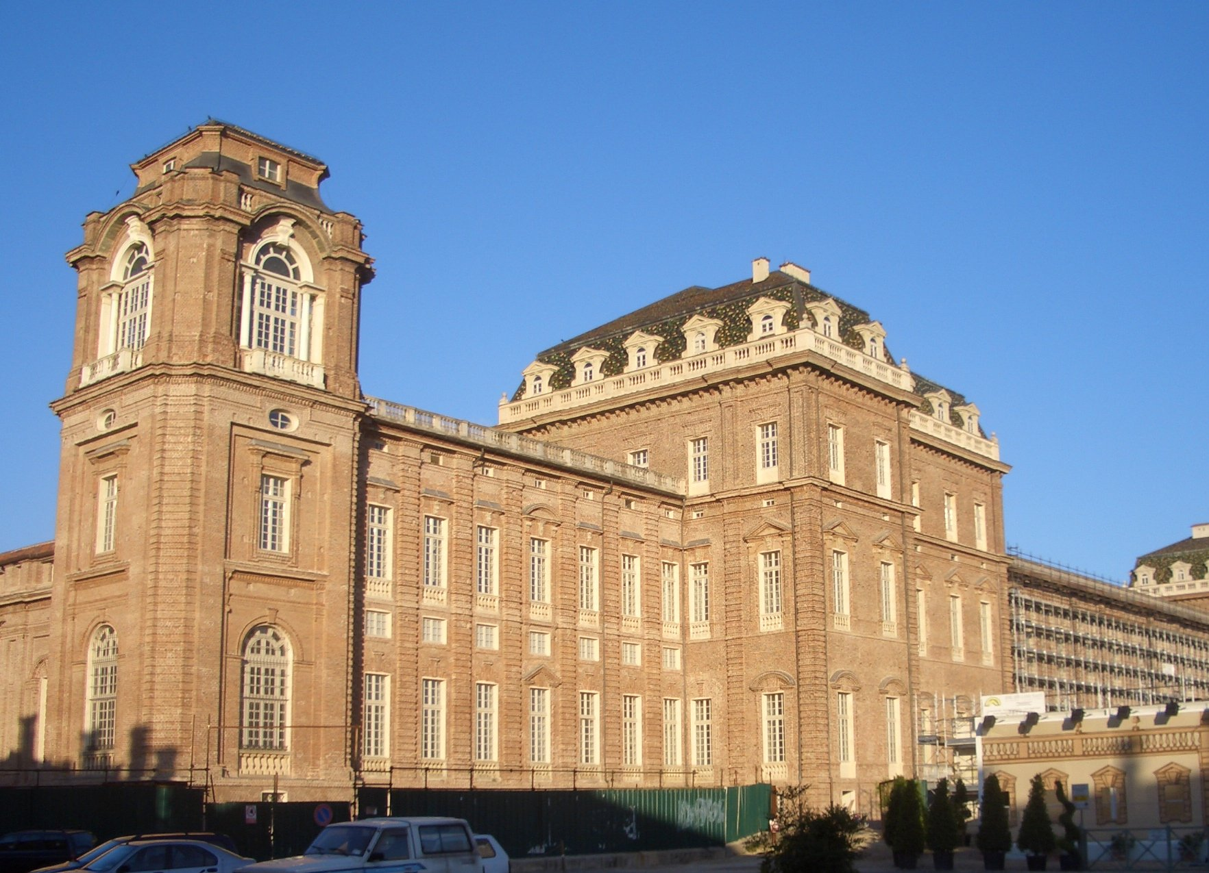 Sight of Reggia di Venaria Reale, royal palace located in Venaria Reale, near Turin, Italy